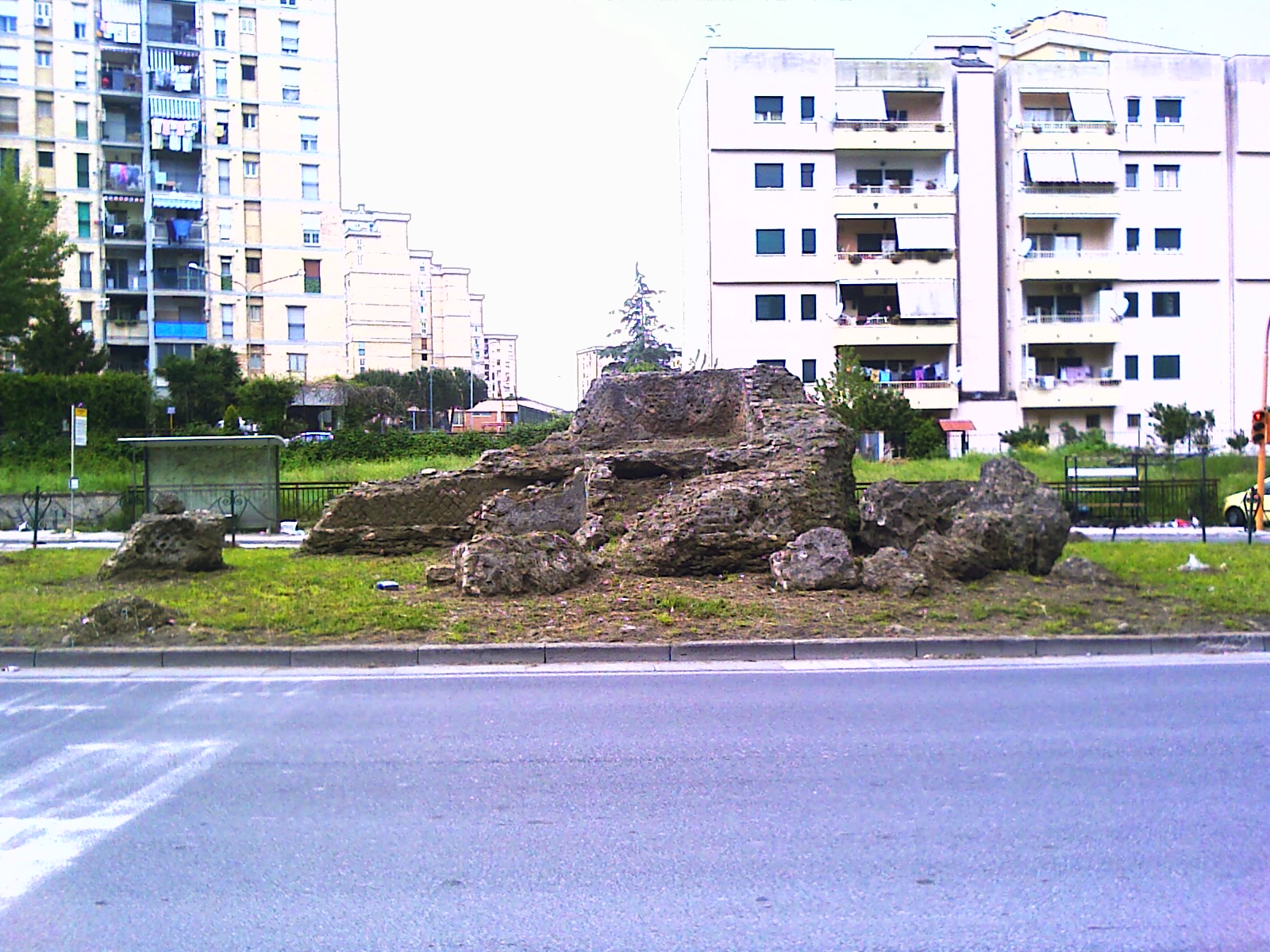 Roman ruins